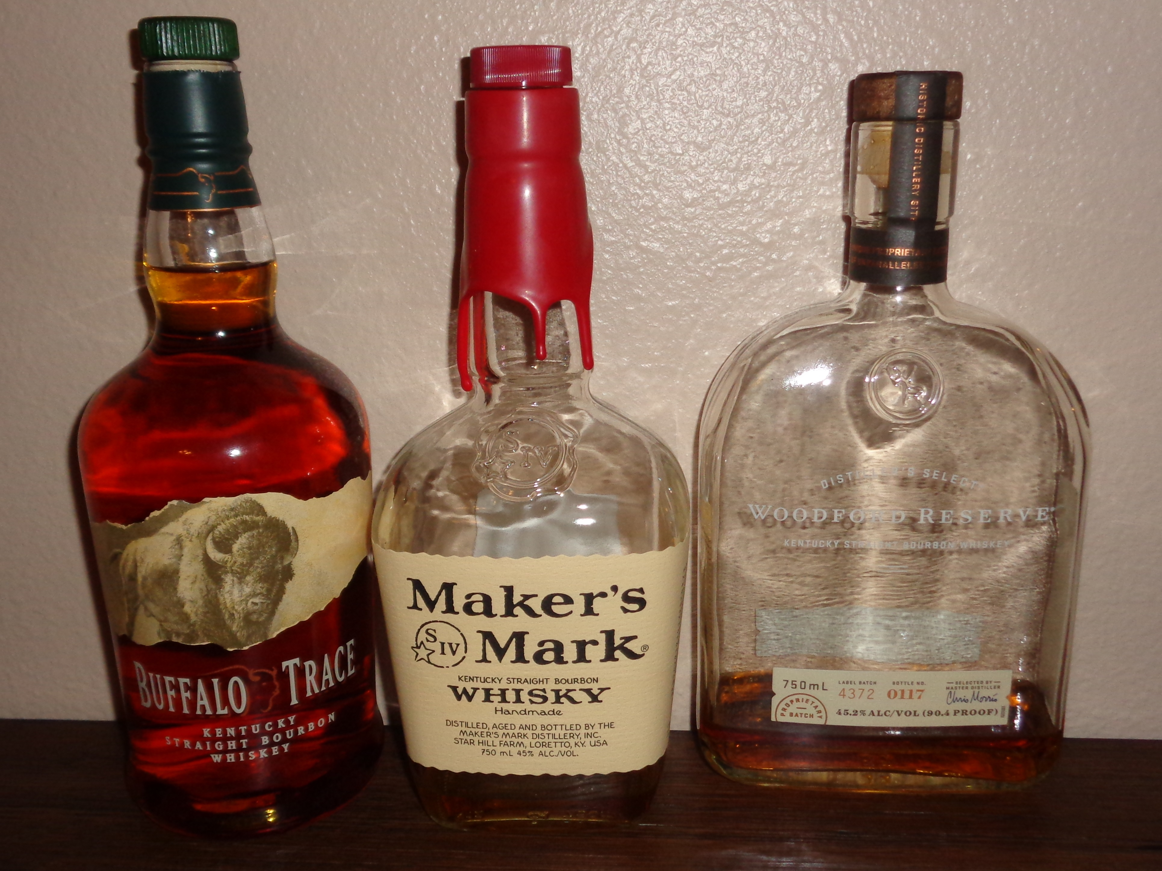 The three bourbon brands in this picture are produced by distilleries that are National Historic Landmarks in Kentucky. They are Buffalo Trace Distillery (a.k.a.: George T. Stagg Distillery), the producer of Buffalo Trace; Burks' Distillery, the producer of Maker's Mark; and Woodford Reserve Distillery (a.k.a.: Labrot and Graham's Old Oscar Pepper Distillery), the producer of Woodford Reserve.